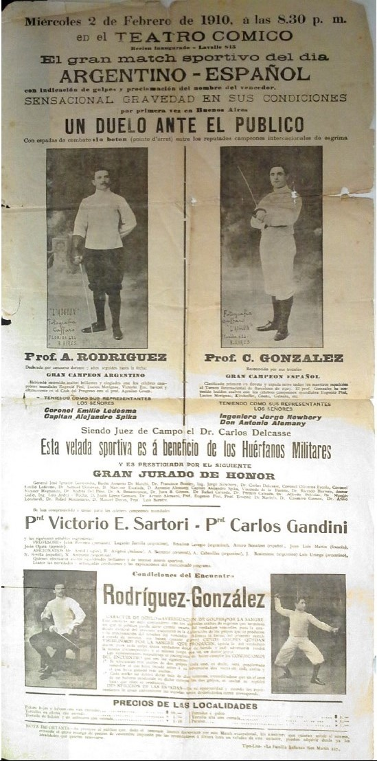 Poster advertising the Argentine-Spanish fencing exhibition match between professor Aniceto Rodriguez professor Ciriaco Gonzalez, in the Teatro Cómico de Buenos Aires february 2th, 1910.